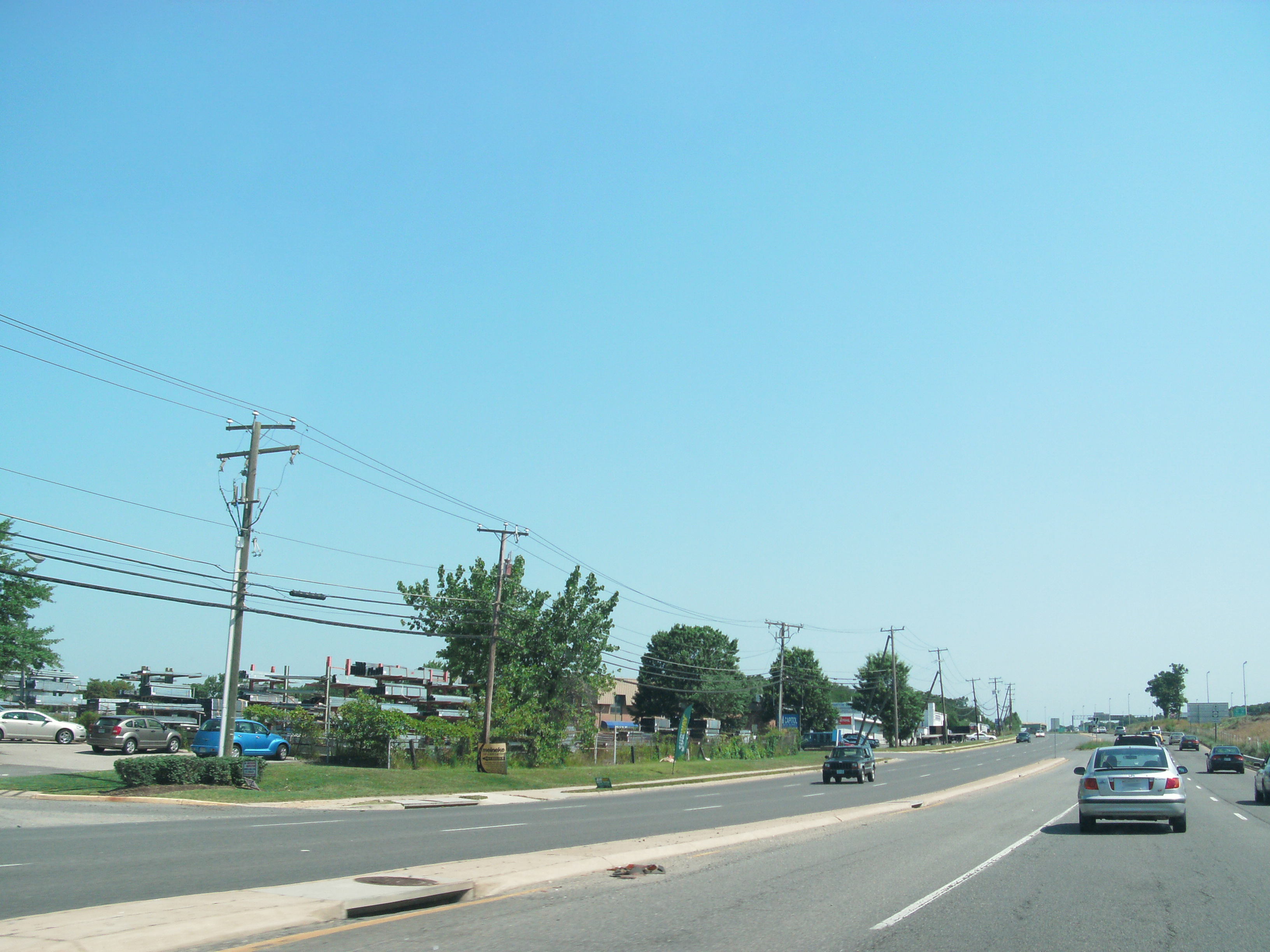 Roadside in Newington, Virginia